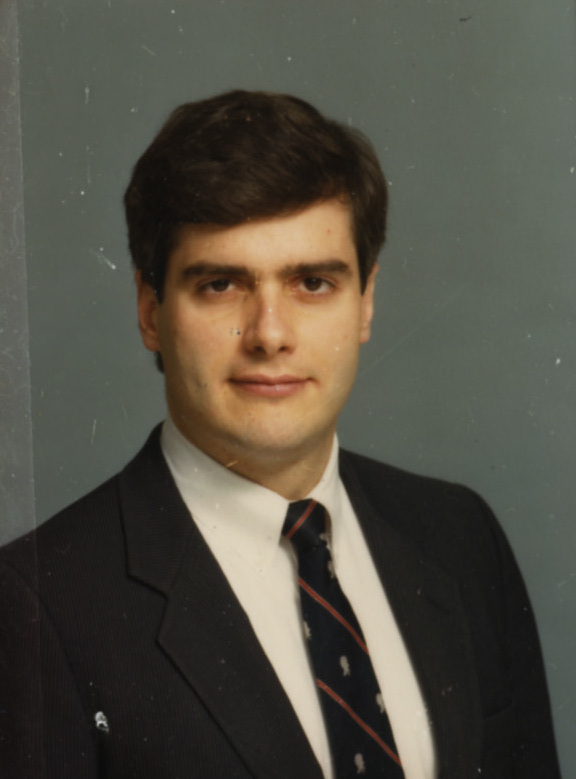 Portraits of David McIntosh